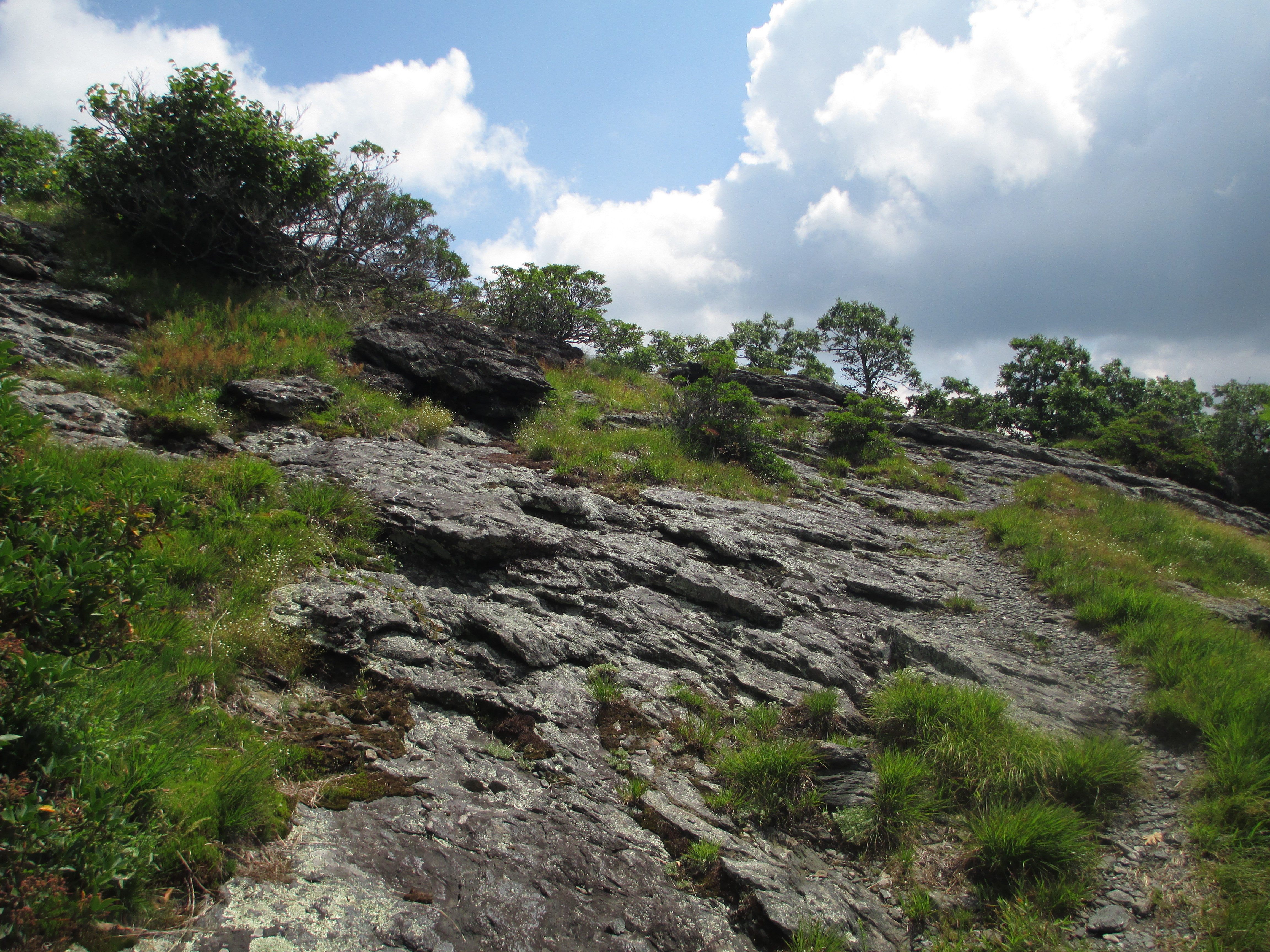 Near the largely treeless summit of Buffalo Mountain, within Virginia's Buffalo Mountain Natural Area Preserve